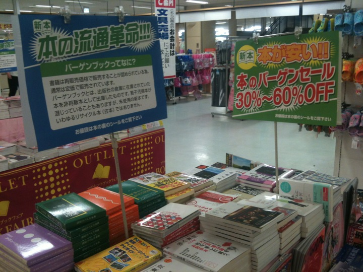 @ イオン熊谷店 (posted via FlickSquare)